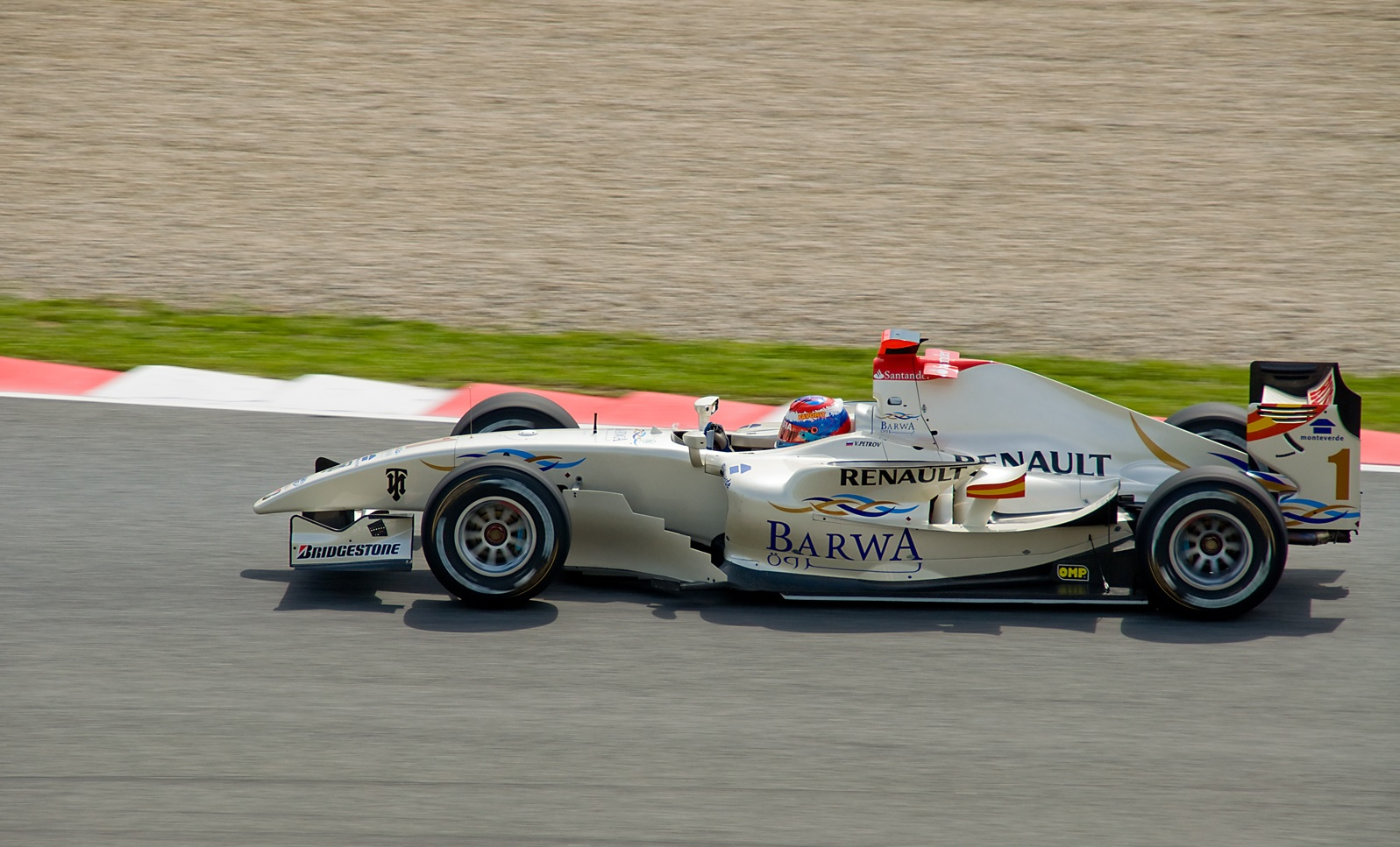 Vitaly Petrov driving for Addax at the Catalunya round of the 2009 GP2 Series season.